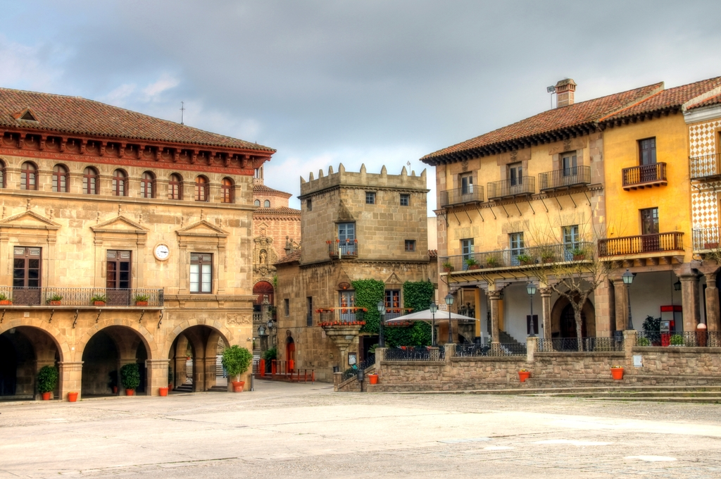 A Square in Baercelona